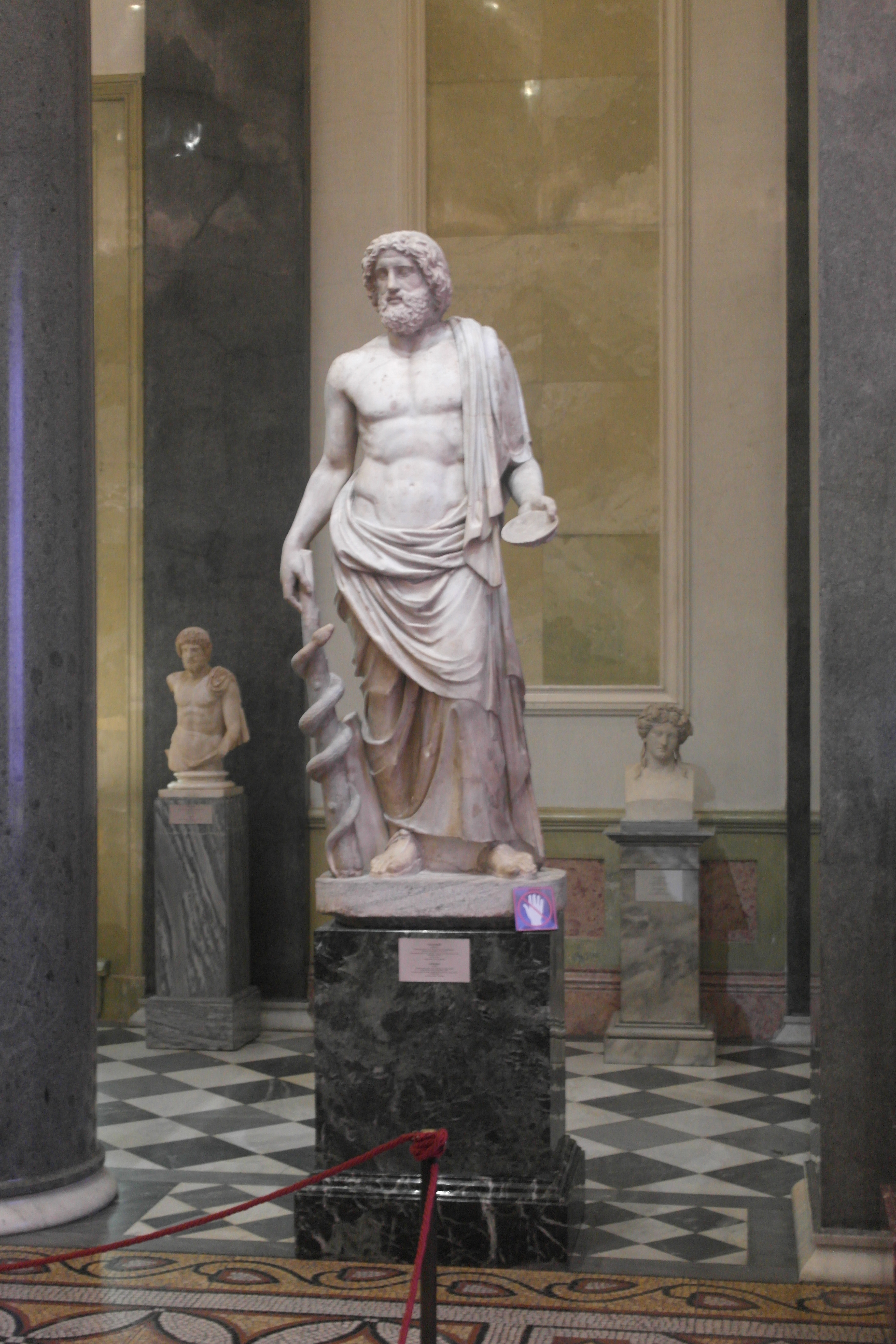 Hermitage room 112 - Statues of Aesculapius